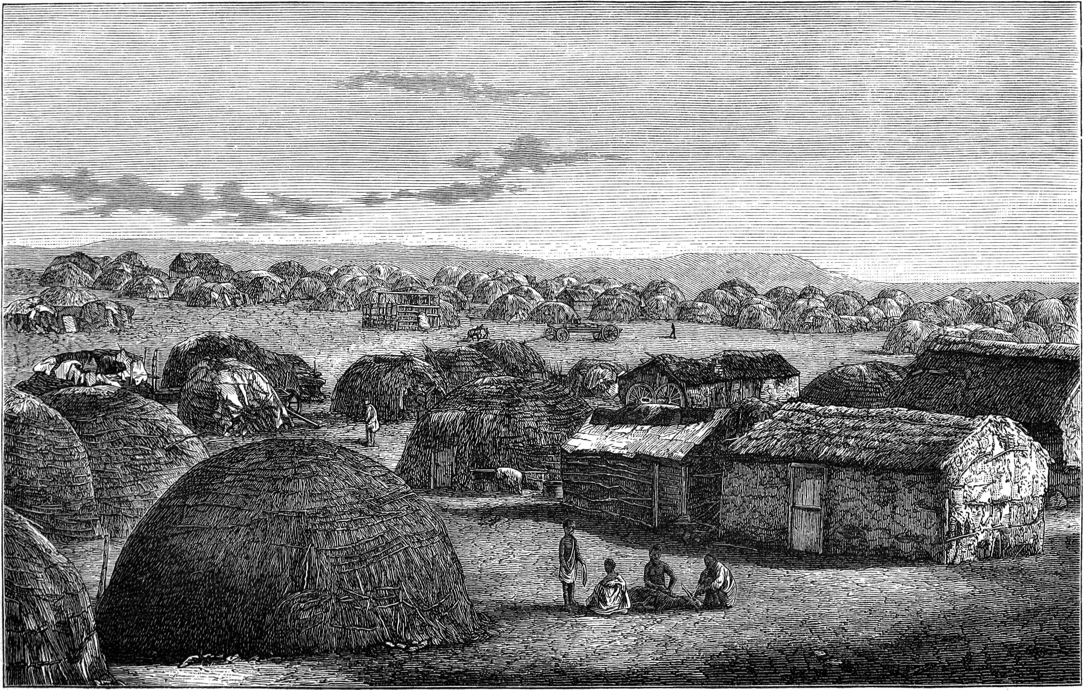 Fingo village at Port Elizabeth, from the book Seven Years in South Africa, volume 2, page 469